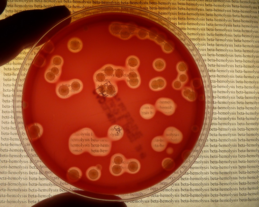 Beta hemolysis on blood agar (Columbia sheep blood agar), cultivation 48 hours, 37°C. Staphylococcus aureus and Streptococcus agalactiae (smaller colonies, incomplete beta hemolysis).